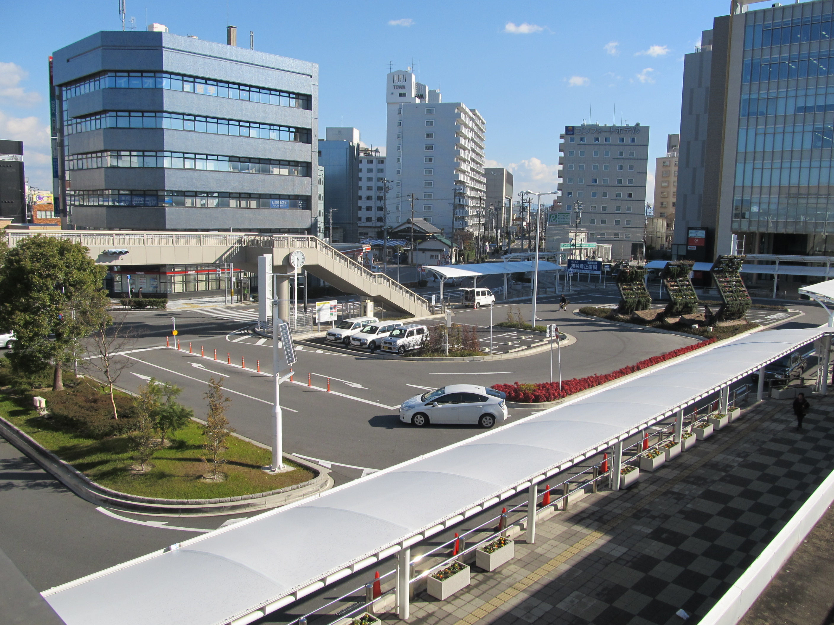 Central Japan Railway Tōkaidō Main Line Kariya Station Northplaza